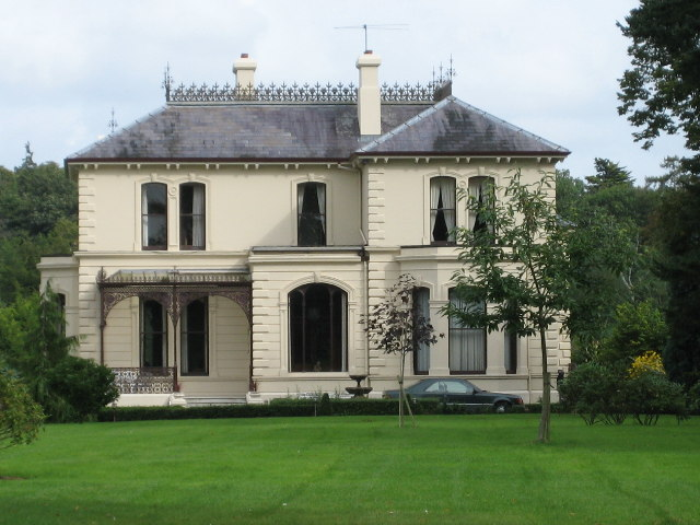 Drum House. Rebuilt c. 1870s to the design of the Belfast architect, Thomas Jackson.